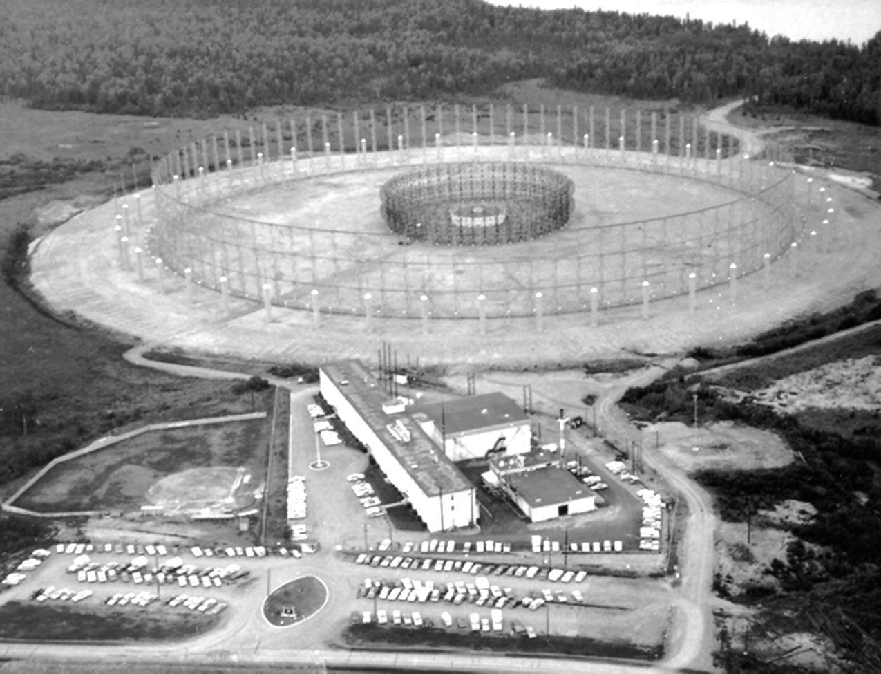 AN/FLR-9 Circularly Disposed Antenna Array or Wullenweber antenna (popularly referred to as an "Elephant Cage") at Elmendorf AFB, Alaska. It is used for radio direction finding.